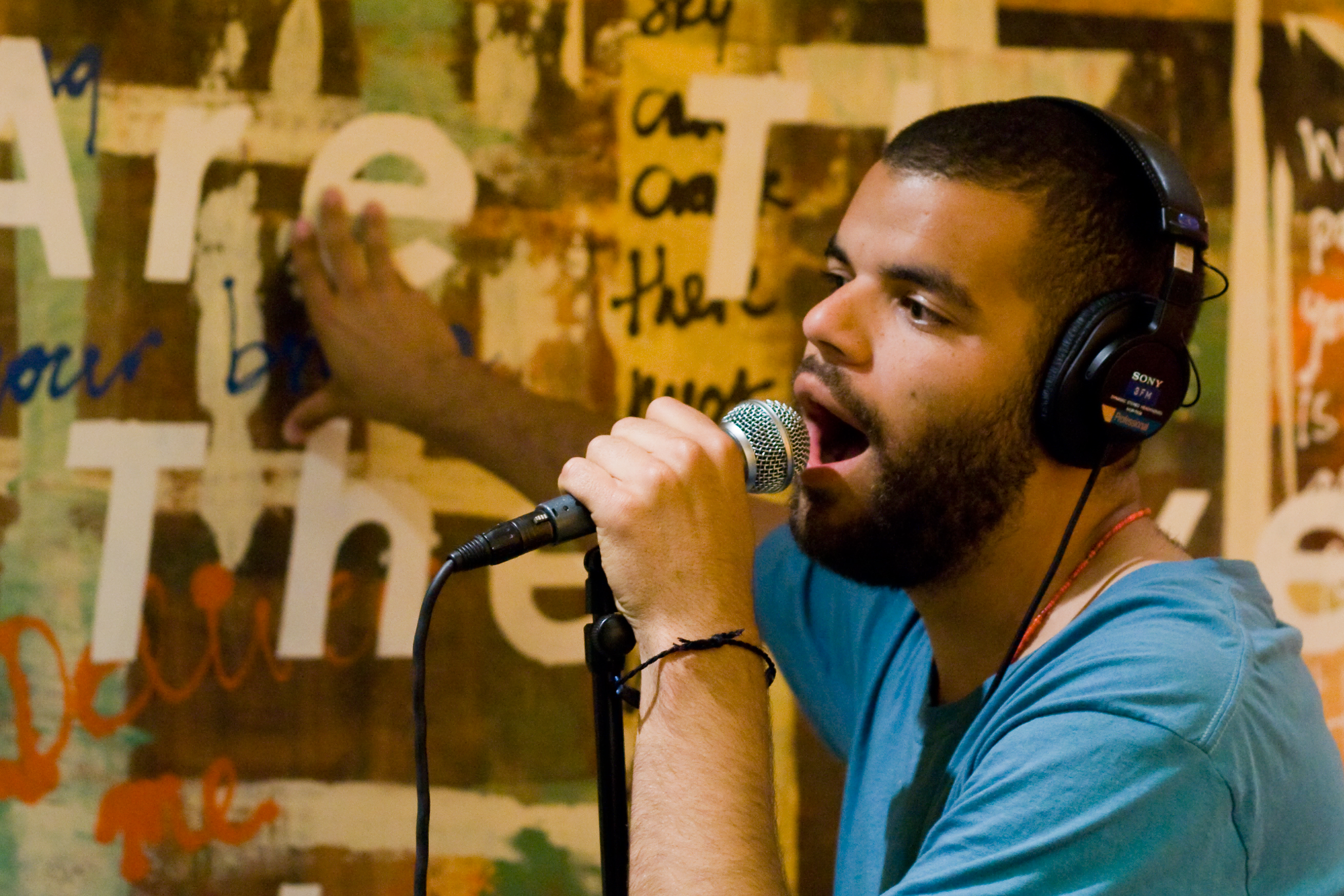 Yousef Gnaoui (a.k.a. Sef), a Dutch rapper. Made during a performance of Flinke Namen at the 3FM radio show MetMichiel.